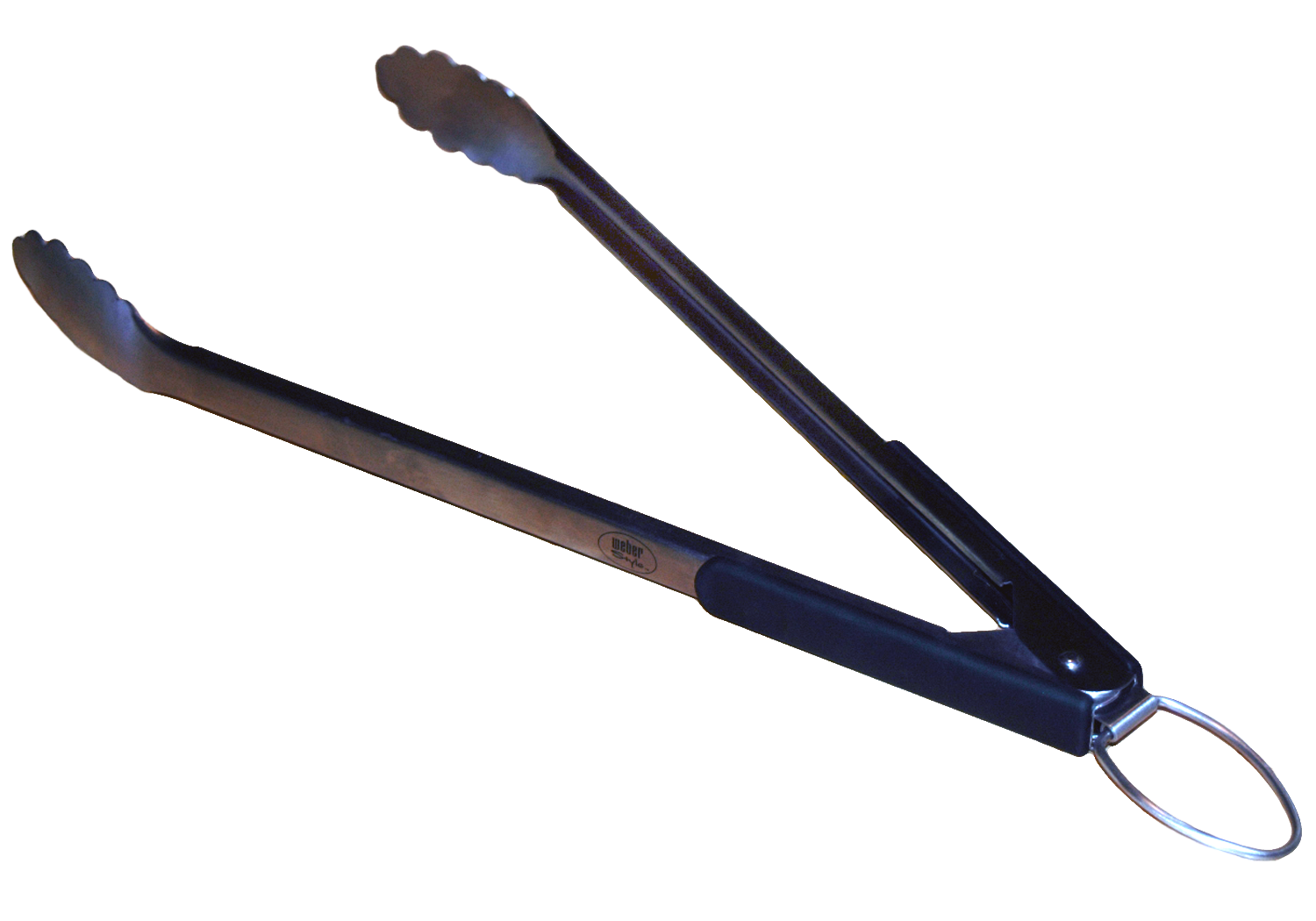 Spring-loaded tongs used for outdoor grilling.